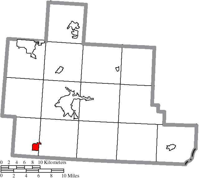 Map of the municipal and township boundaries of Athens County, Ohio, United States, as of the 2000 census, with the location of the village of Albany highlighted. Township borders are shown only in unincorporated areas in order to differentiate incorporated and unincorporated areas more clearly.